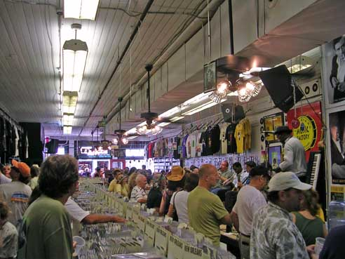 In-store performance at the Louisiana Music Factory, New Orleans, LA